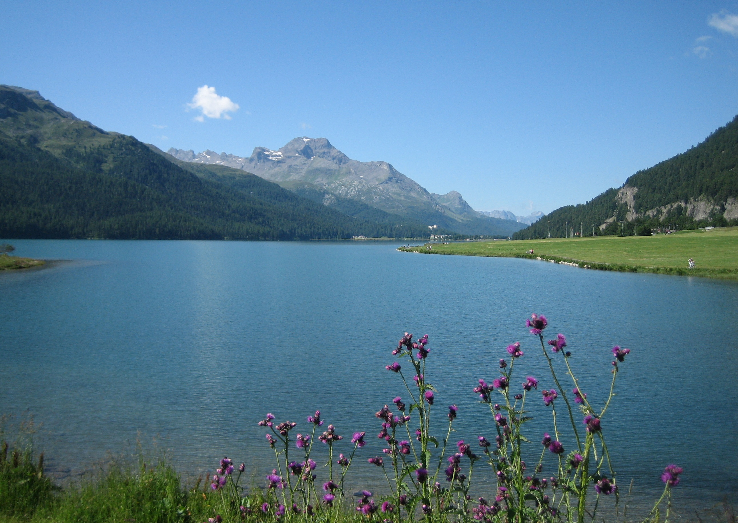 View over Lake Silvaplana from the bridge between Silvaplana and the village Surlej towards Sils im Engadin. Rumantsch: Lej da Silvaplauna